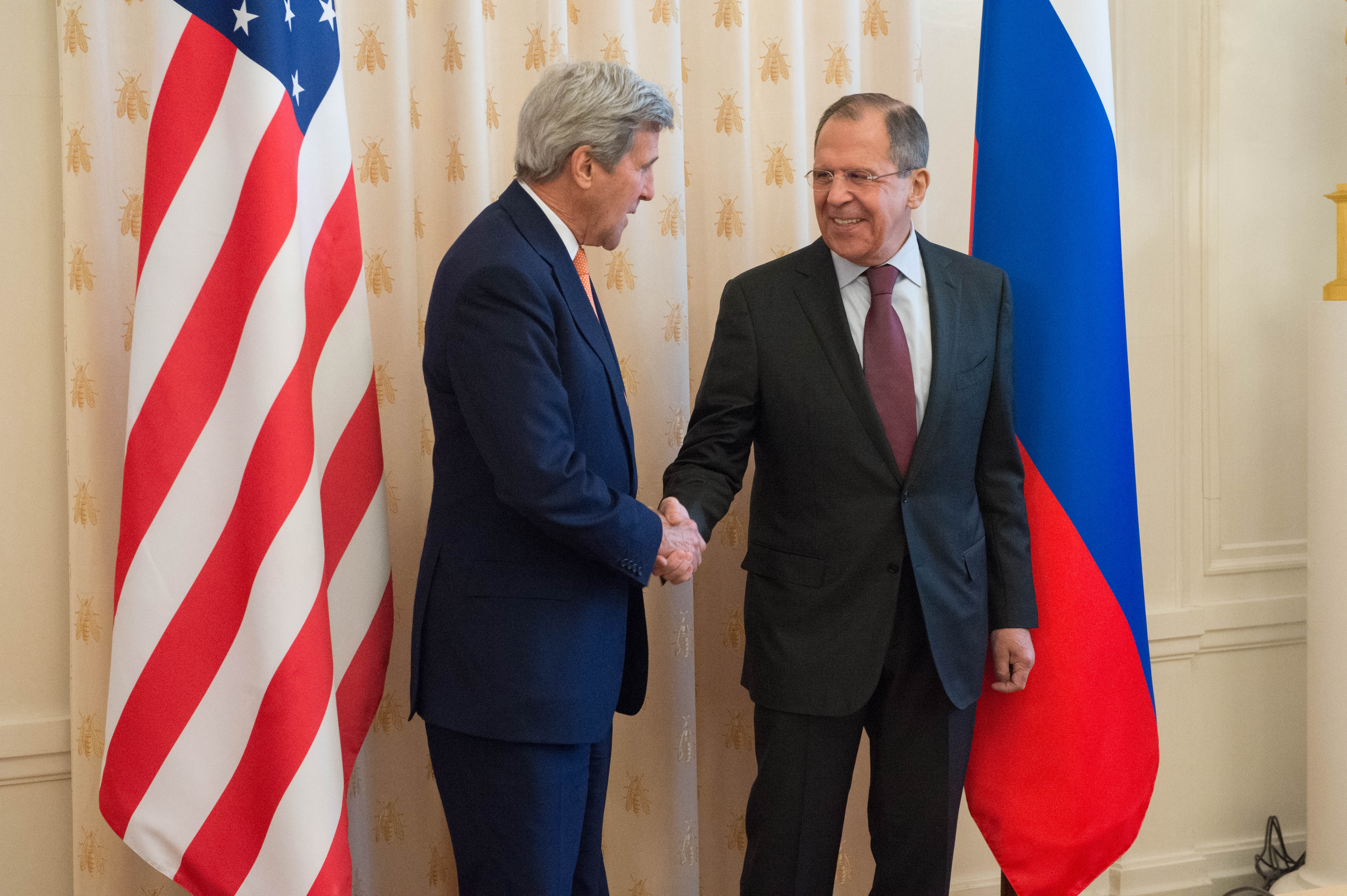 U.S. Secretary of State John Kerry shakes hands with Russian Foreign Minister Sergey Lavrov before their meeting in Moscow, Russia, March 24, 2016. [State Department photo/ Public Domain]